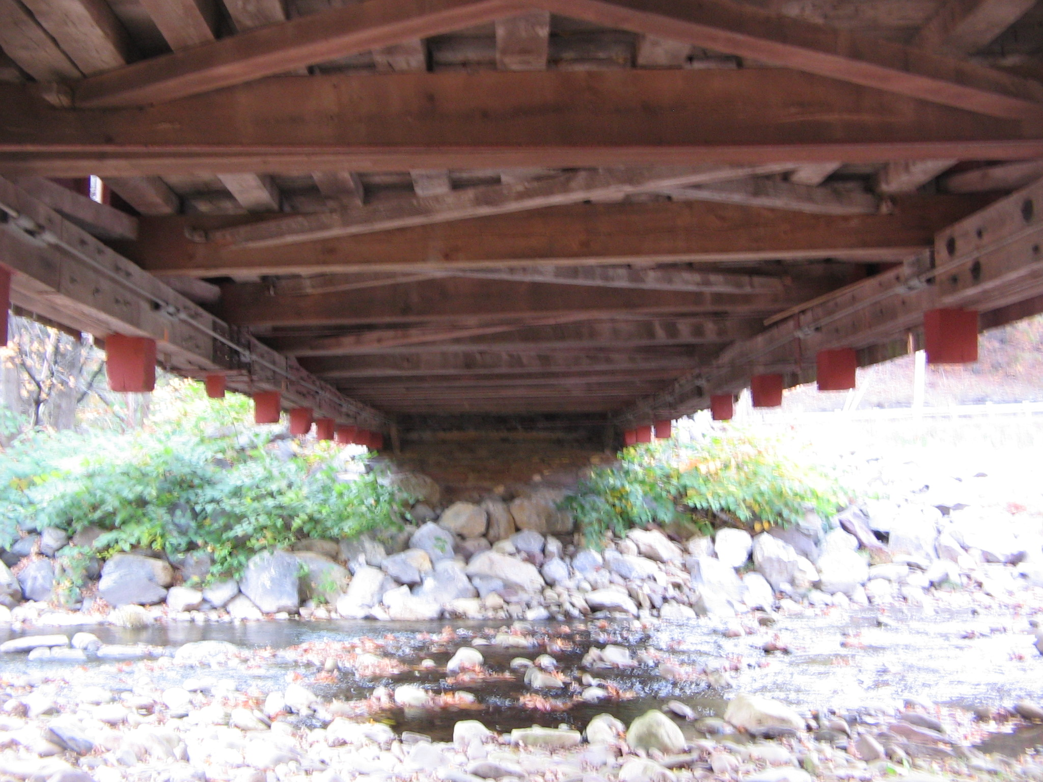 Western abutment and underside of Sonestown Covered Bridge over Muncy Creek in Davidson Township, Sullivan County, Pennsylvania in the United States. Built 1850, on the National Register of Historic Places.